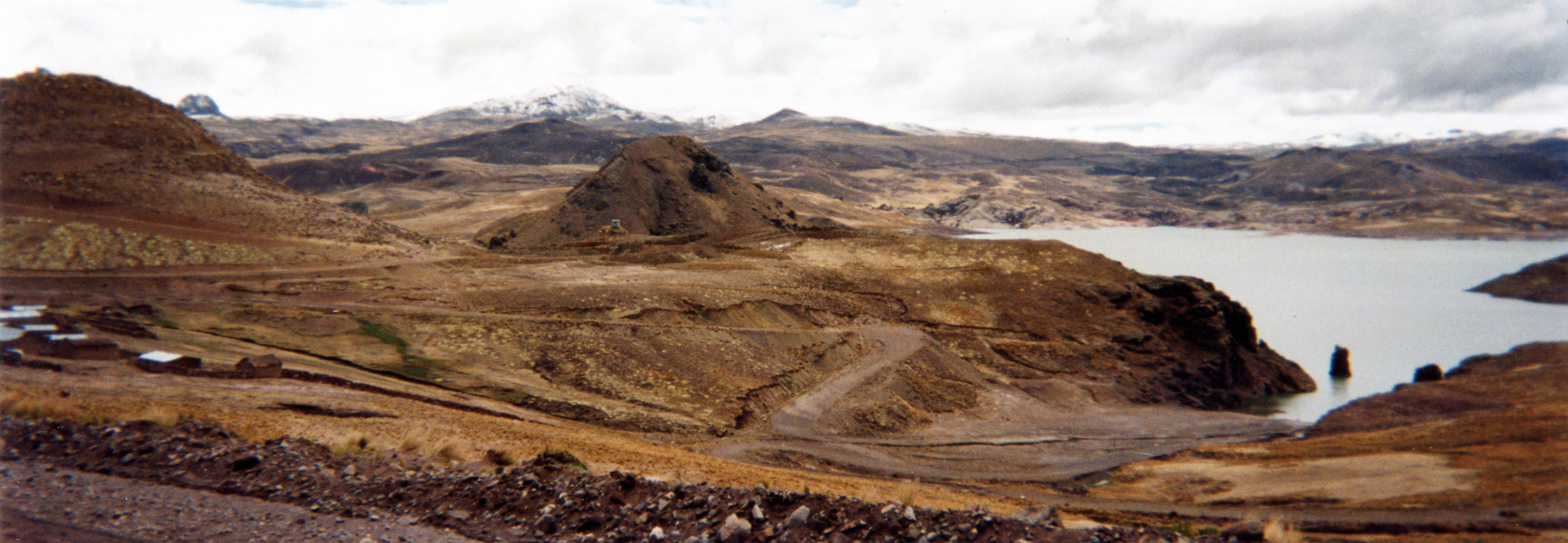 View to Salinas lake from the road Arequipa-Cuzco